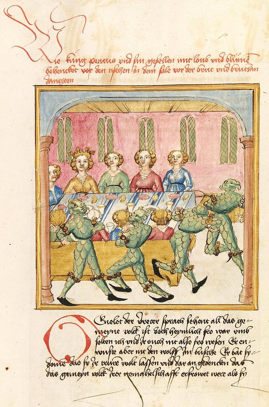 Fol. 122r. Depicted person: Ponthus, Sidonia